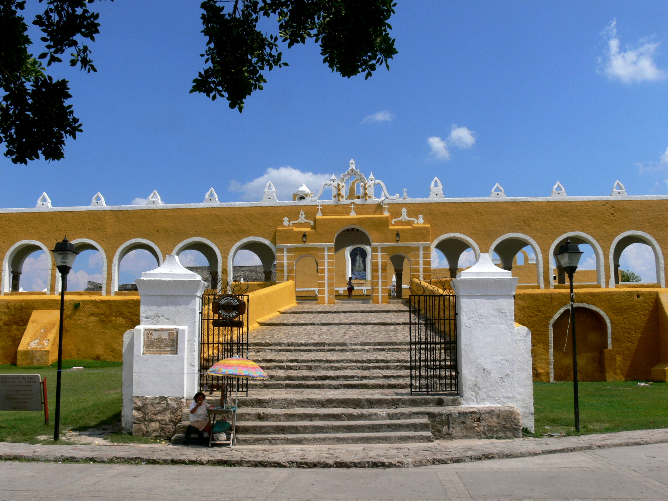 Izamal. Stairway to the monastery